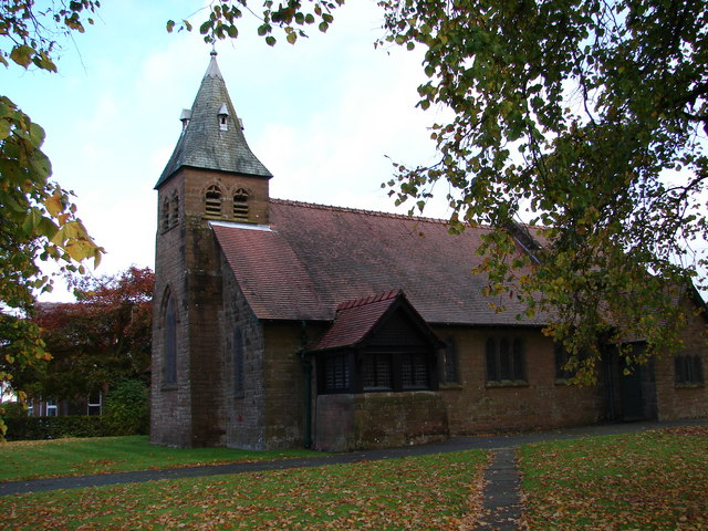 All Saints Church, Lockerbie All Saints Scottish Episcopal Church, built 1901-3 in the Arts & Crafts style.